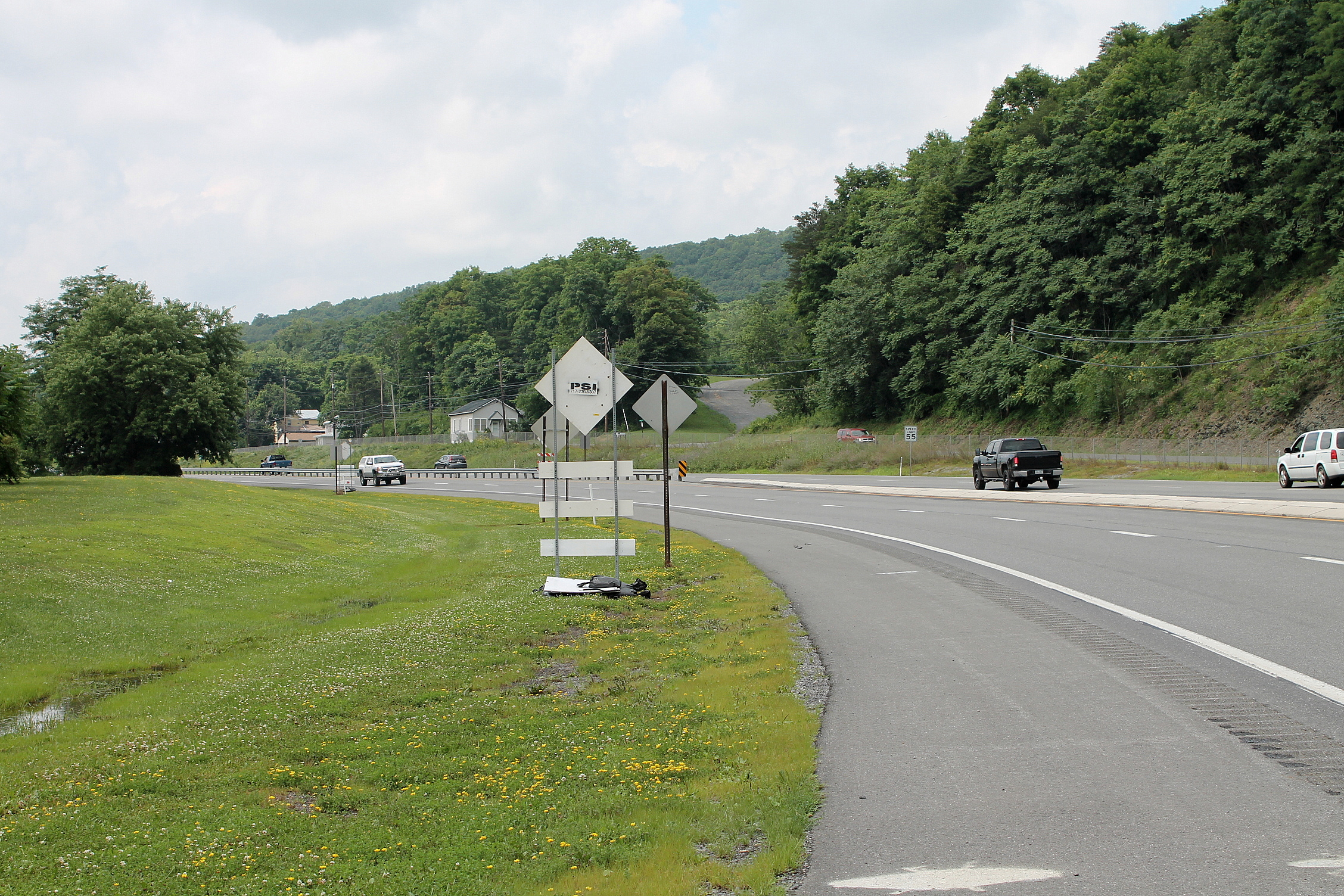 Pennsylvania Route 54 north of Danville